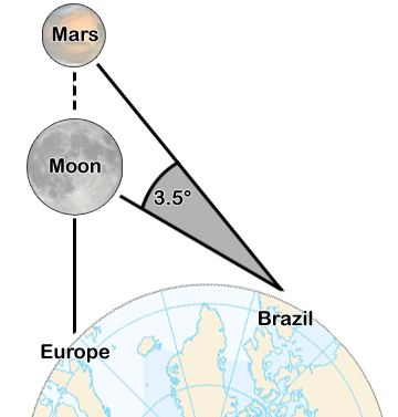 Amerigo Vespucci's means of determining longitude.